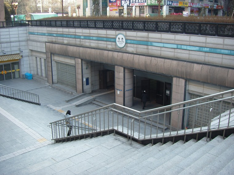 Pyeongchon Station